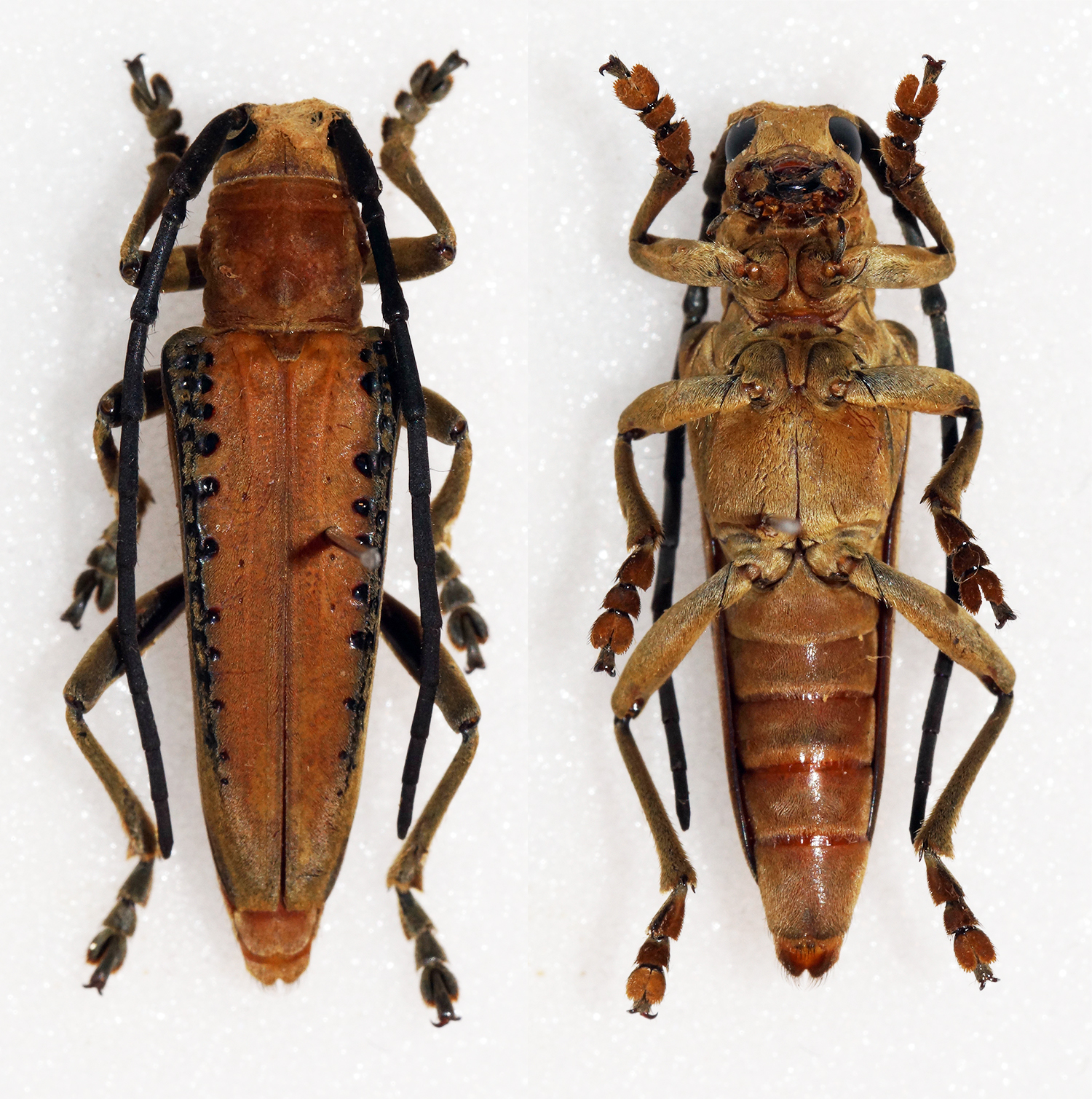 Fabricius,1781 Sex: Male Data: 10-09-96 - Nagarhole NP - Karnataka - South India Size: 26.3mm